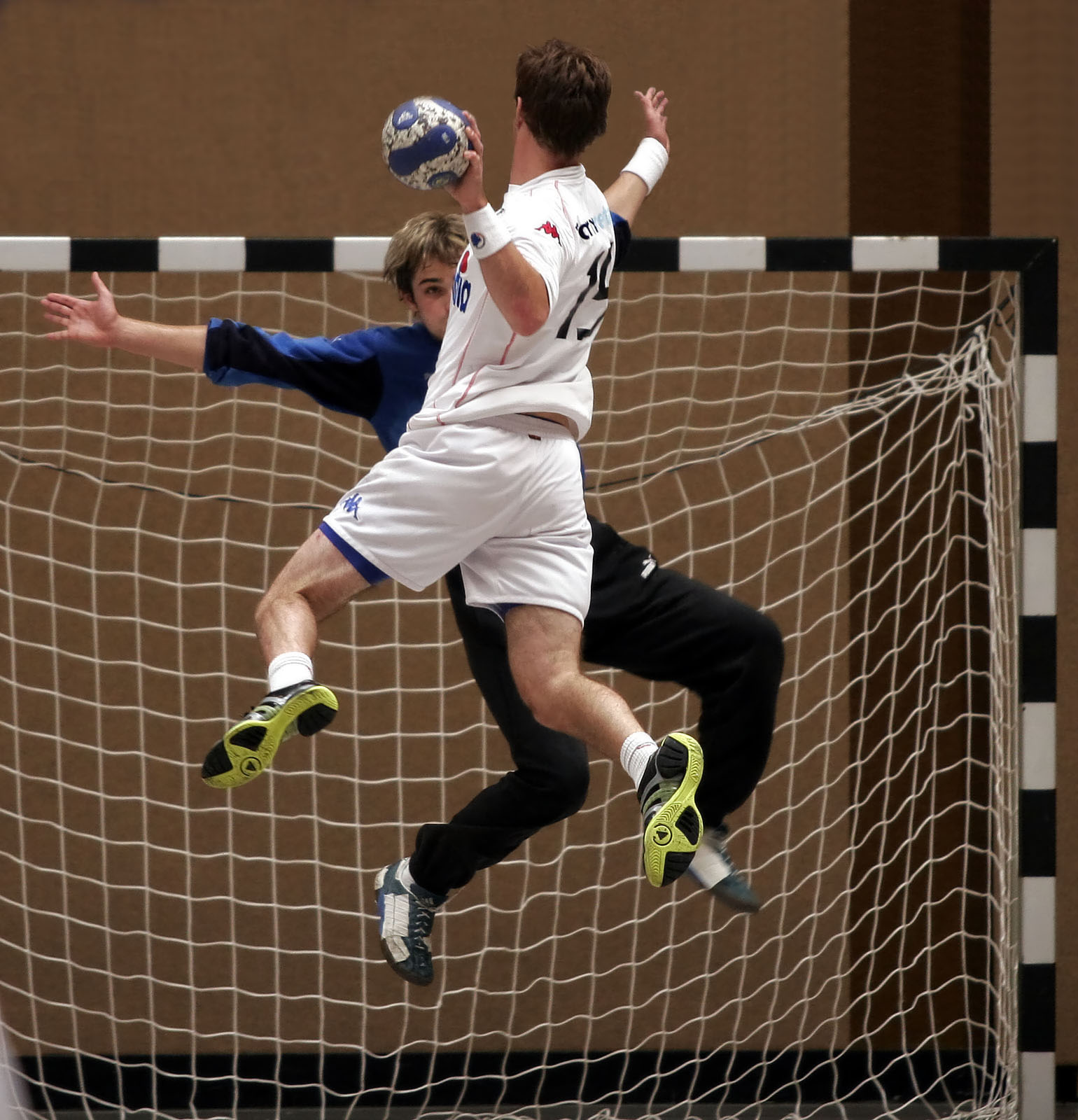 Frederik Lindahl from FCK Haandbold (shooter) and Stanislaw Gorobtschuk from VfL Gummersbach (goalkeeper), during the Schlecker Cup 2007 in Ehingen (Germany)